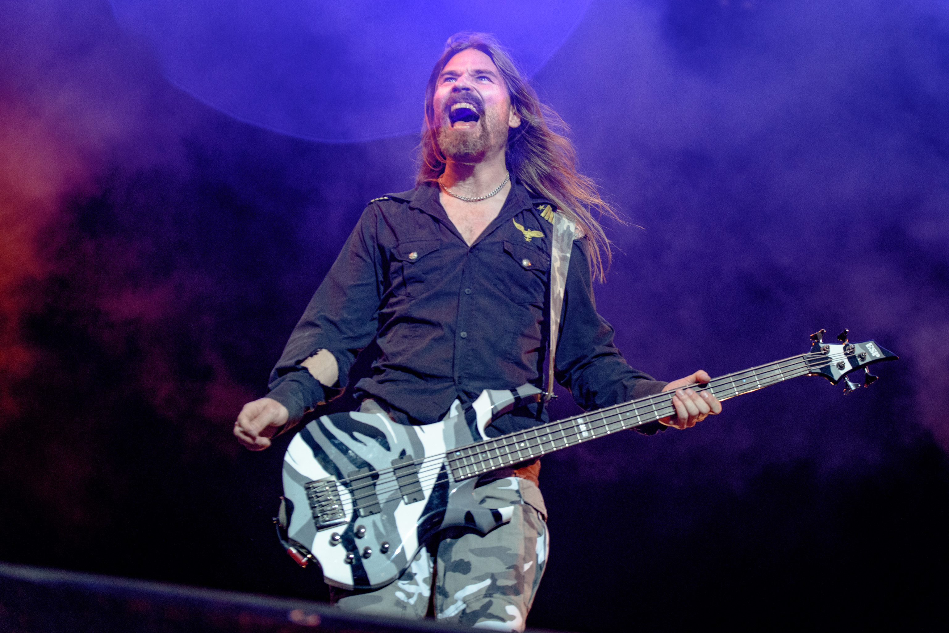 Sabbaton Live @ Rockavaria 2016